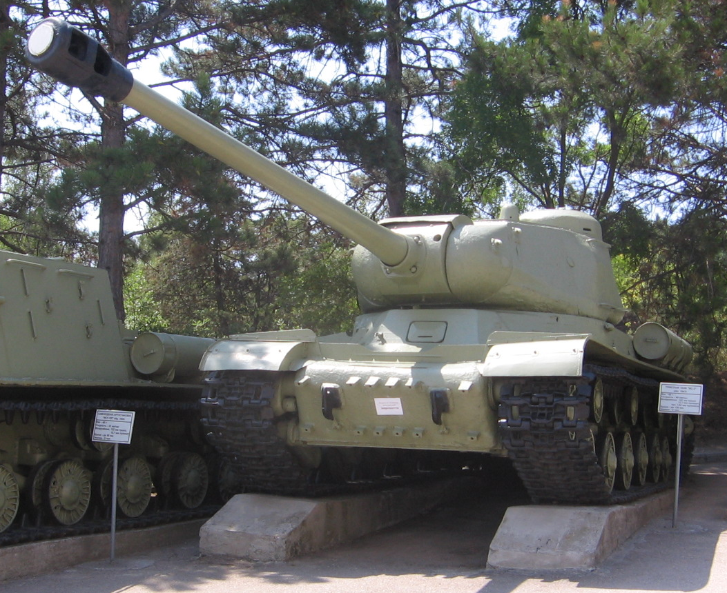 Soviet IS-2 Model 1943, since 1960 displayed at the Museum of Heroic Defense and Liberation of Sevastopol on Sapun Mountain in Sevastopol.